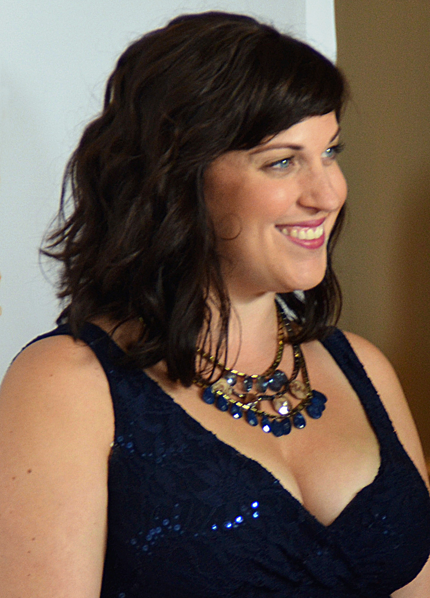 Mingle Media TV and Red Carpet Report host Quinn Marie were invited to cover the 66th Emmy® Awards Producers Peer Group Reception at The London in West Hollywood. Television Academy’s Producers Peer Group Governors Hayma "Screech" Washington and Tim Gibbons along with the Producers Peer Group Executive Committee hosted this exclusive cocktail reception in celebration of this year’s Emmy nominees. For video interviews and other Red Carpet Report Emmys 2014 coverage, please visit and follow us on Twitter, YouTube and Facebook at: About the Emmy Awards The 2014 Creative Arts Emmy Awards took place at the Nokia Theatre L.A. LIVE on Saturday, August 16 and were produced by Spike Jones, Jr. FXM will broadcast an edited version of the awards will be broadcast on Sunday, August 24 at 8:00 PM ET/PT and 10:00 PM ET/PT. They will also be streamed in their entirety as part of the Backstage LIVE show on at 12:00 PM PT / 3:00 PM ET on Monday, August 25 prior to the Backstage LIVE and Emmy preshows. For more of Mingle Media TV’s Red Carpet Report coverage, please visit our website and follow us on Twitter and Facebook here: Follow our Host, Quinn on Twitter at